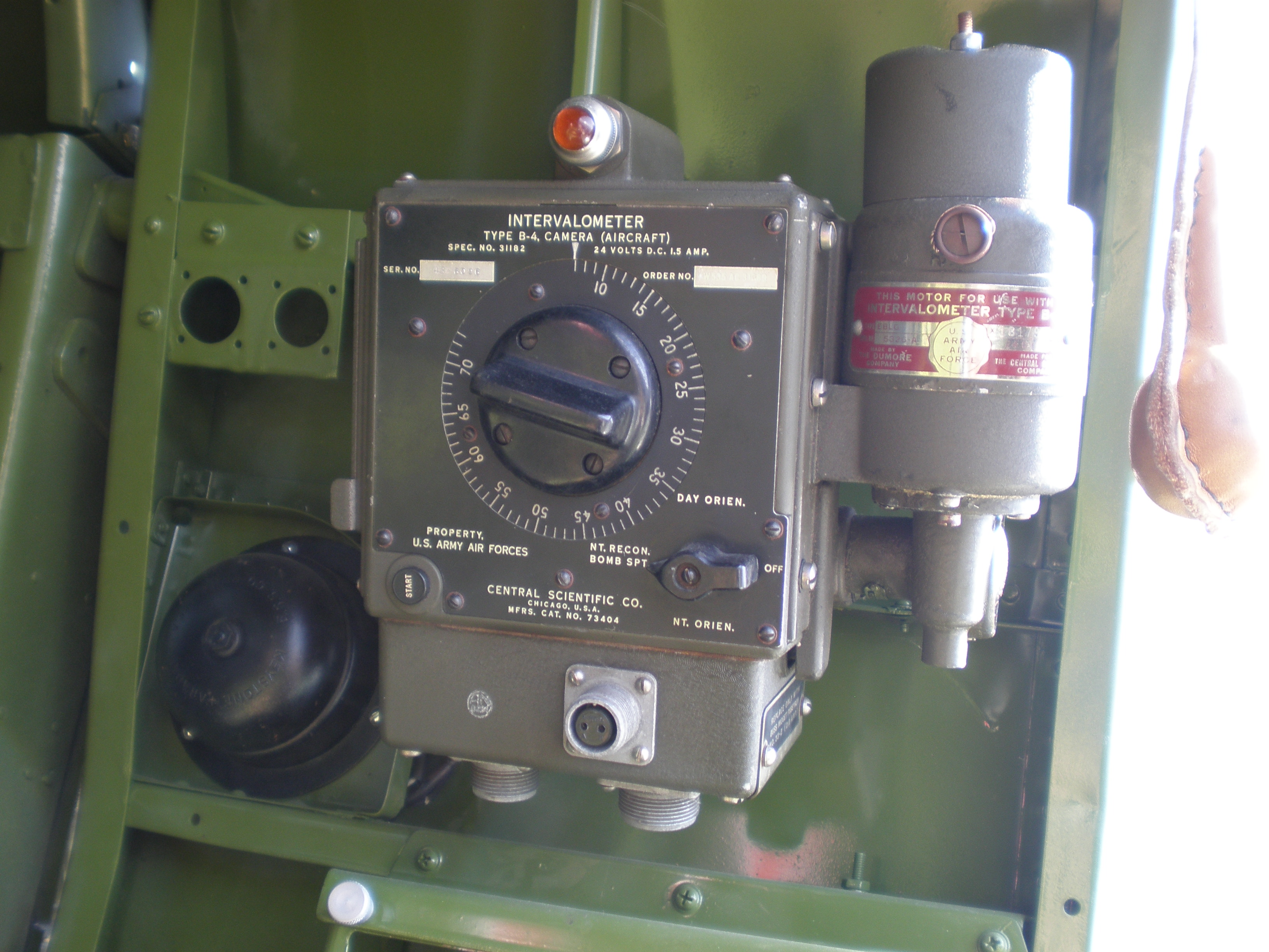 The intervalometer of the Douglas A-26 Invader "City of Santa Rosa", on display at the Pacific Coast Air Museum in Santa Rosa, California.